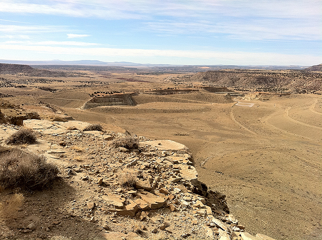 The former Jackpile-Paguate Uranium Mine on the Laguna Pueblo, 40 miles west of Albuquerque, shows the results of typical remediation efforts, which consisted of covering mine waste and contouring to reduce erosion. However, runoff from the site pollutes water downstream. (Photo courtesy of Mary Gant)